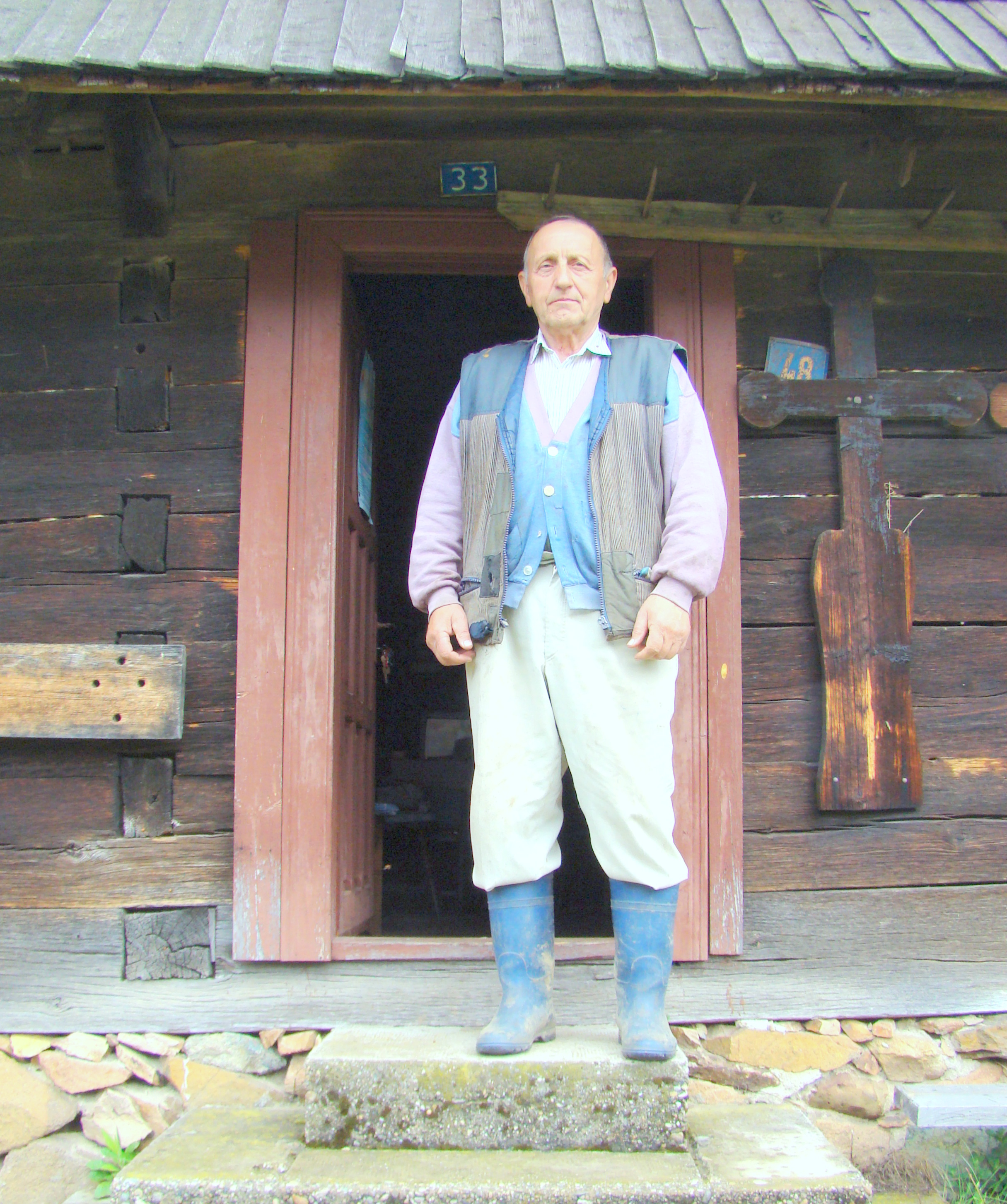 Wooden church in Micănești, Hunedoara county